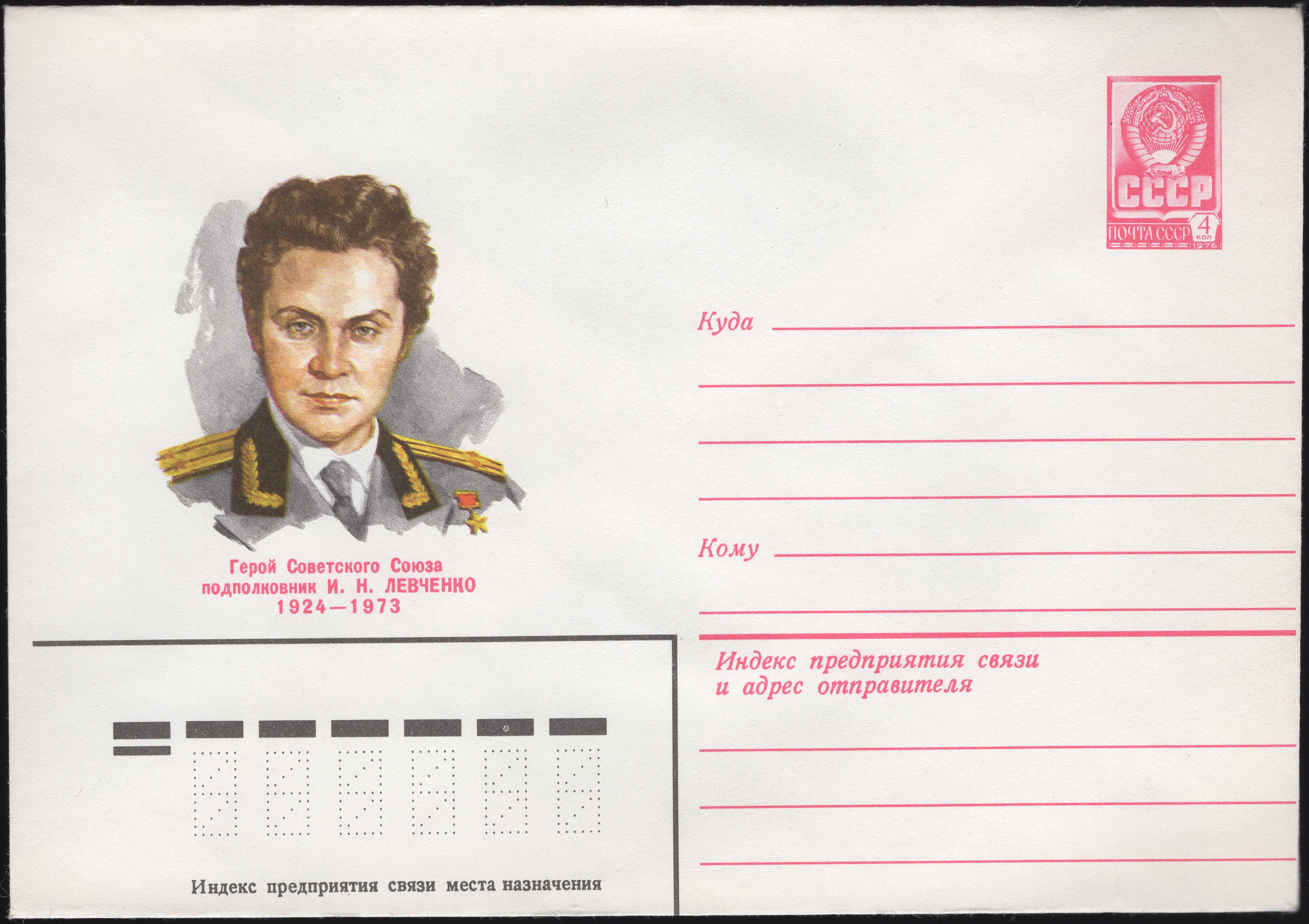 Hero of the Soviet Union Lieutenant Colonel Irina Levchenko. 1924-1973. Series: Heroes of the Soviet Union. Artist Peter Bendel.